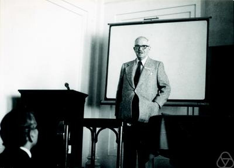 Jerzy Neyman, Warschau 1973